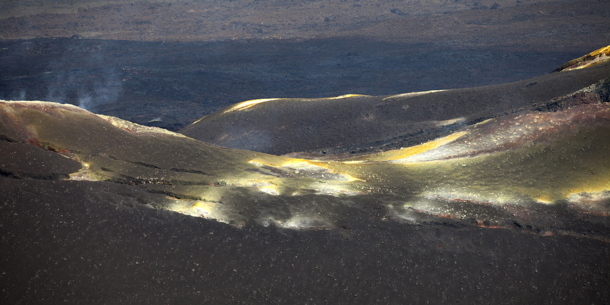 Nyamulagira volcano near Goma, 19 of January 2012. © MONUSCO/Sylvain Liechti